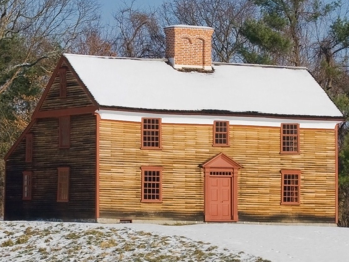 Cropped from File:Saltbox Concord 2.jpg to illustrate clapboard siding